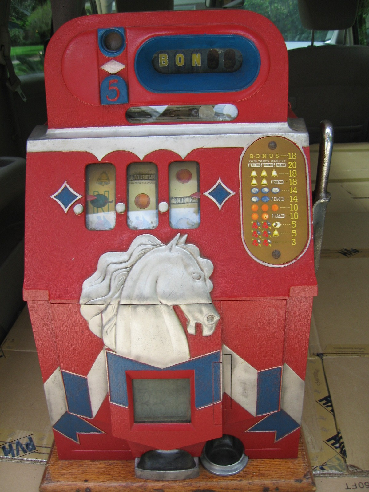 A very exciting and fun antique slot machine to play! This is a 5 cent antique slot machine. The bonus machine is more fun to play then all the other slot machines. Observe the letters at the top right of the machine. When the entire word BONUS is spelled out the machine will pay out 18 coins. This unique trick is to encourage players to play longer. The letters are raised by hitting the corresponding letter in order on the first reel. These letters are printed over the usual classic slot machine numbers.